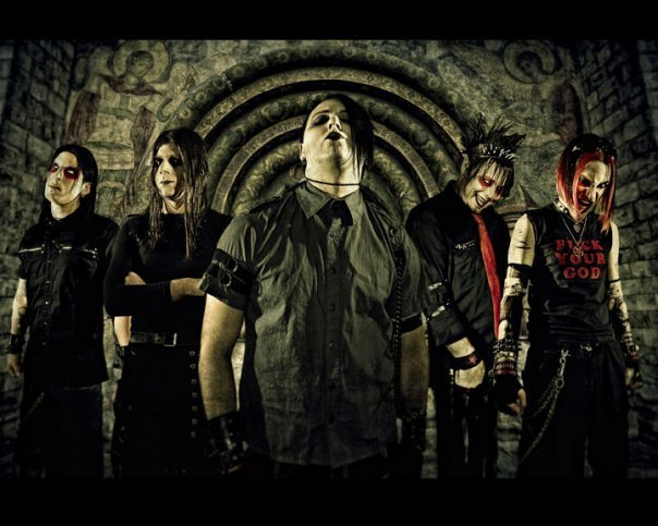 Promo Photo of the band Deadstar Assembly taken for the Coat of Arms CD Release.